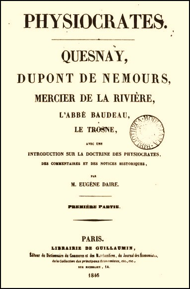 Cover of book Physiokrates (1846)